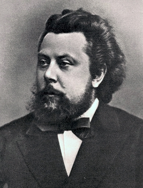 Depicted person: Modest Petrovich Mussorgsky – Russian composer (1839-1881)